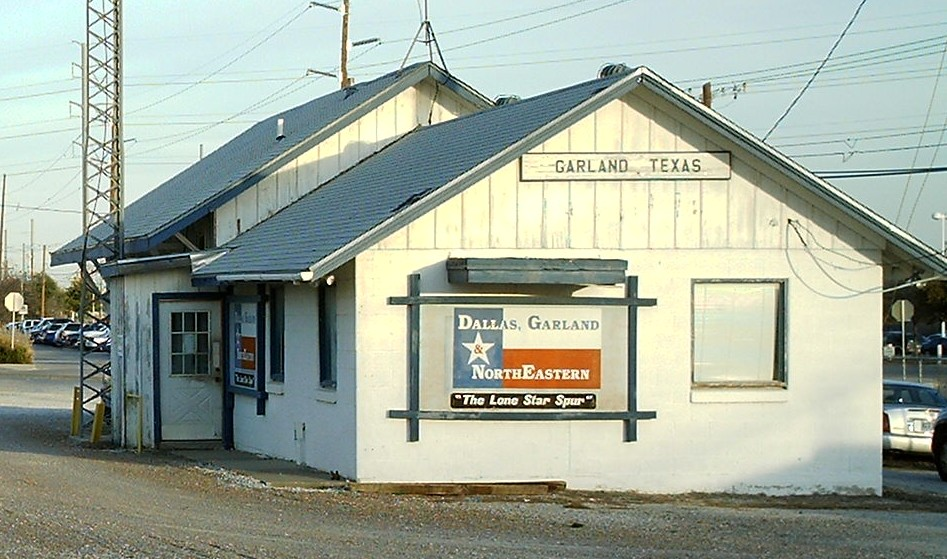 The Dallas, Garland and Northeastern Railroad depot in Garland, TX. Photo by Evan Jennings, Dec. 2006.